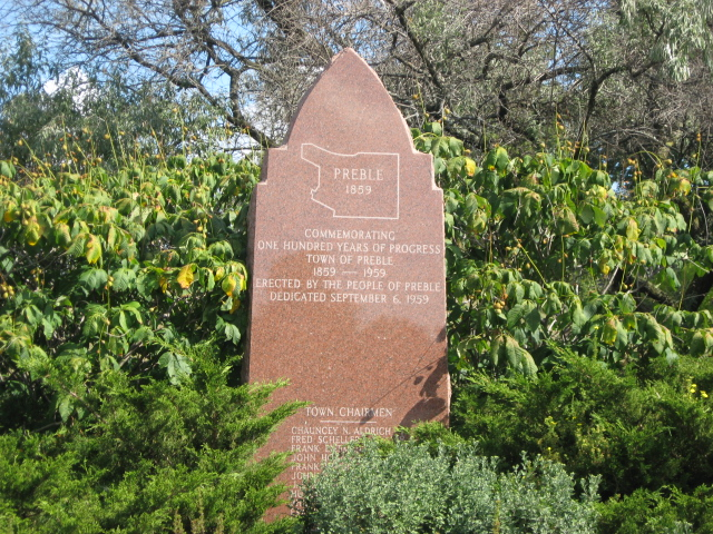 This monolith was erected by Preble Park during the Town of Preble's centennial celebration in 1959.